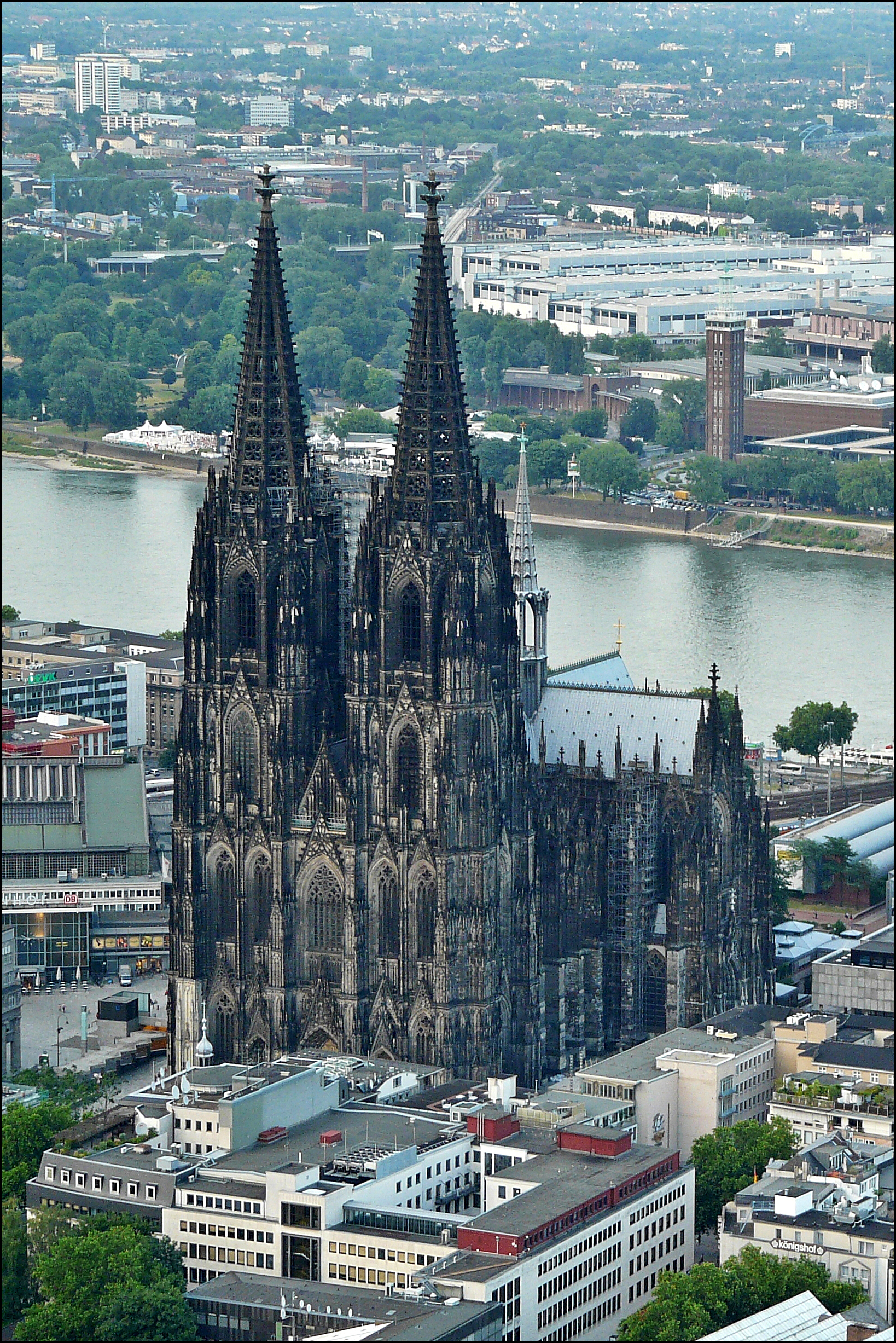 Cologne Cathedral (Gothic Rayonnant style), Cologne, Germany